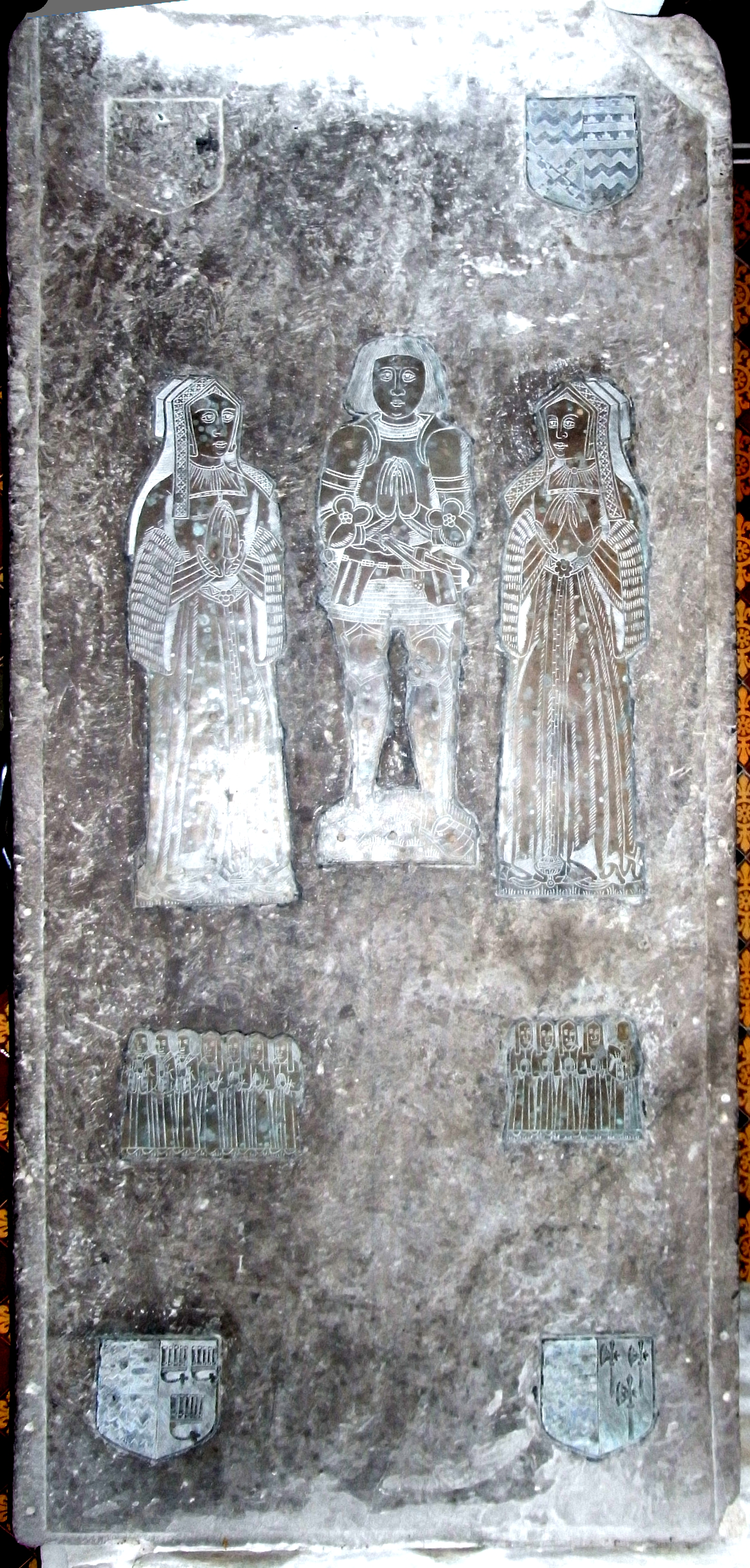 Tpp slab of chest-tomb of Sir John Bassett (1462-1529) of Umberleigh, inset with monumental brasses of himself, his two wives, and their children with heraldic escutcheons. Right: fist wife Ann Denys, above her 5 children, 1 boy and 4 girls; left: second wife Honor Grenville, above her 7 children, 3 boys and 4 girls. Atherington Church, Devon